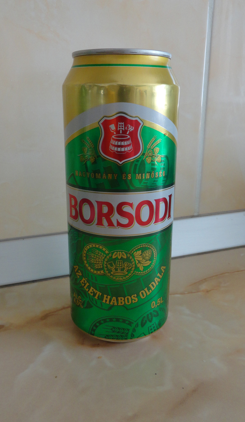 Borsodi lager beer can from Hungary.